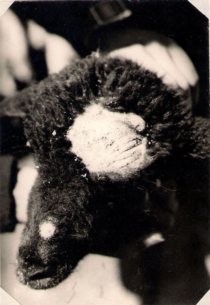 Trichophyton verrucosum infection in Sheep (see: PANDEY, V.S., MAHIN, L., VANBREUSEGHEM, R. (1979), Prevalence and distribution of ringworm by Trichophytum verrucosum in sheep in the High Atlas of Morocco, Ann. Soc. Belge Méd. Trop., 59 , 385-389.